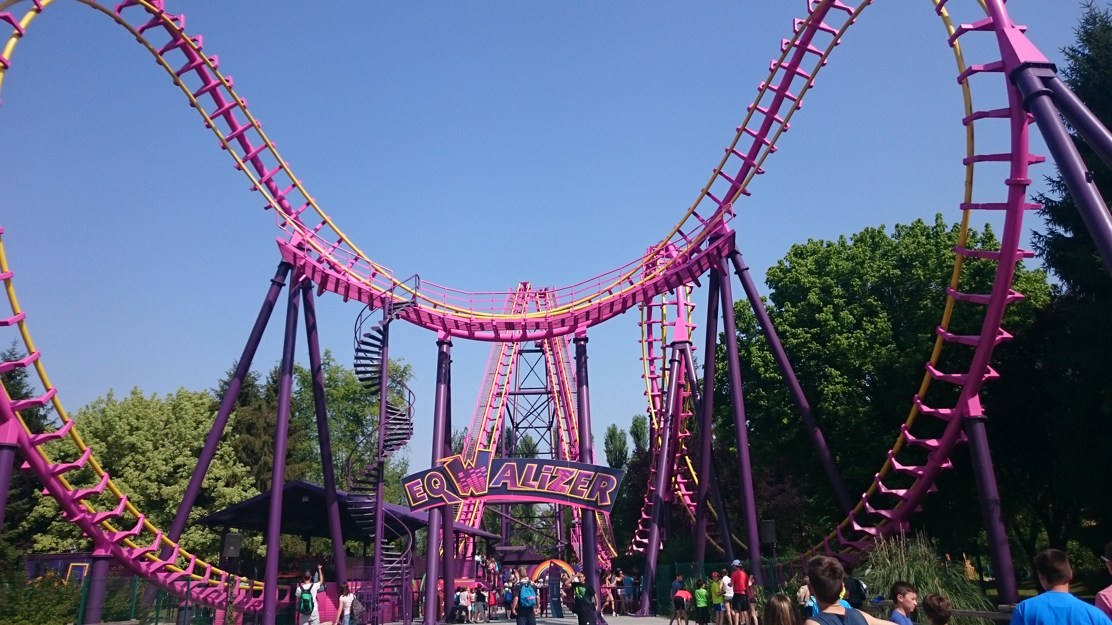 Entrance of Eqwalizer at Walibi Rhône-Alpes